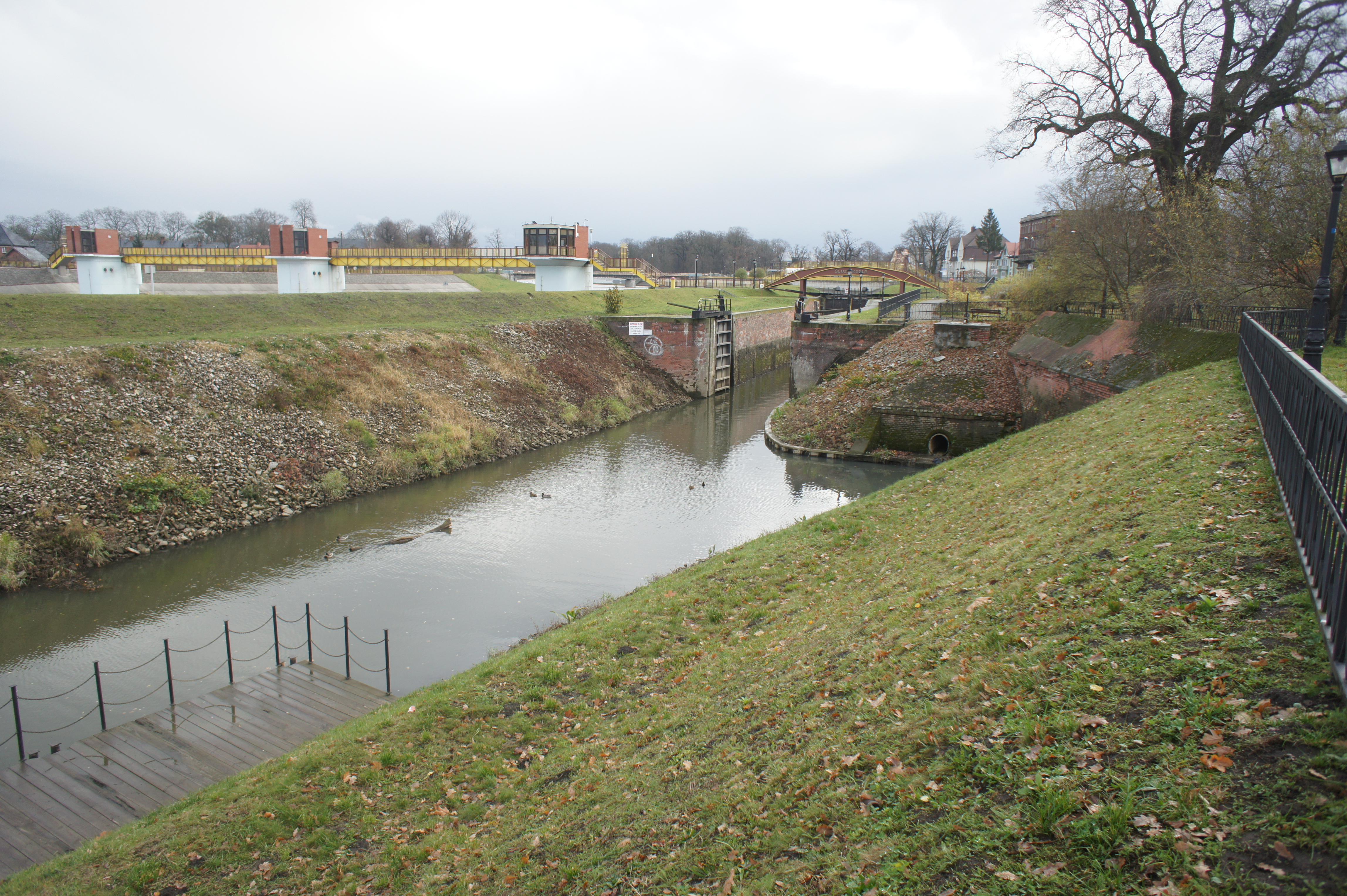 Water lock in Koźle on Odra river, Upper Silesia, Poland